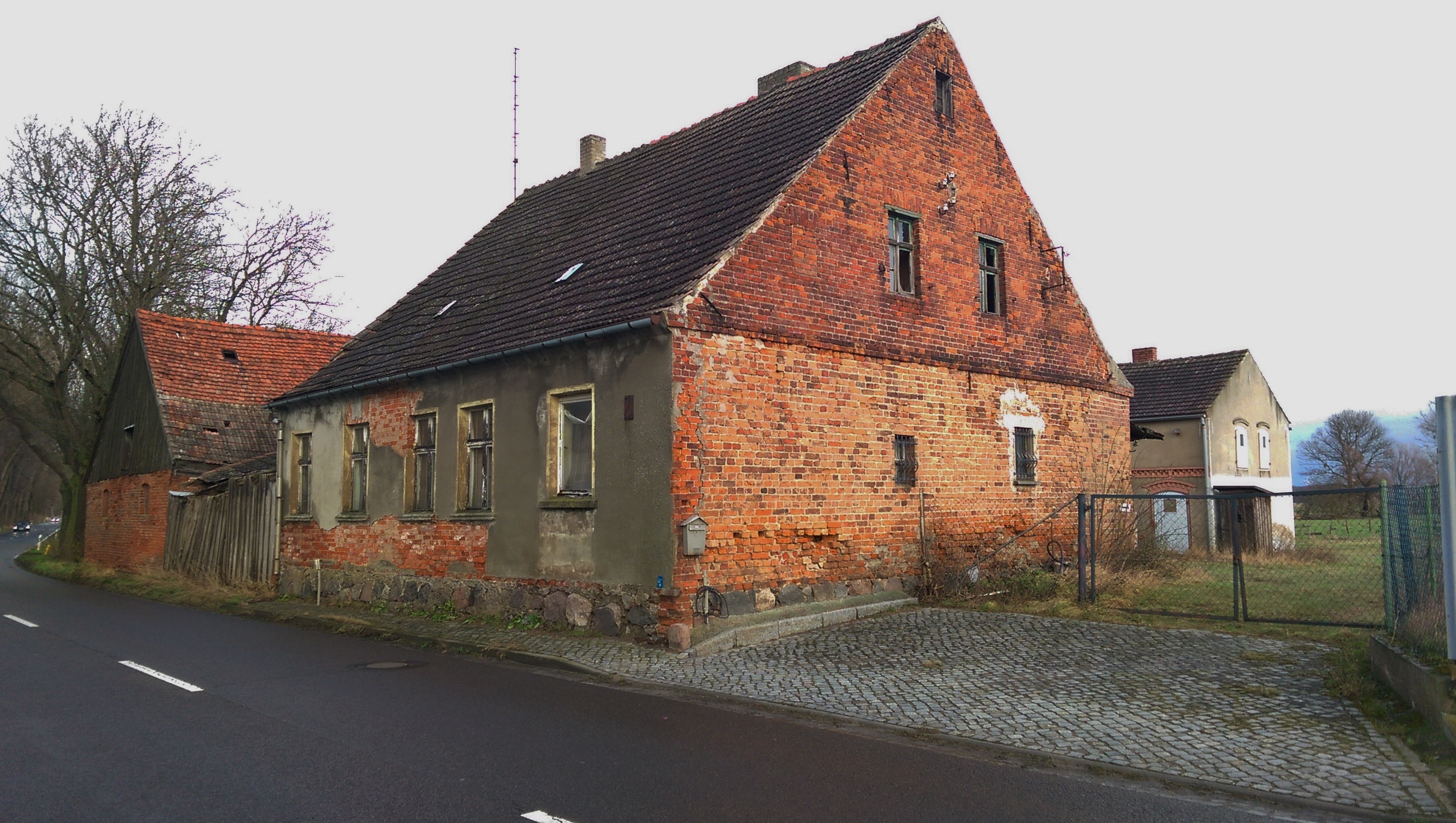 South-western view of the former duty station in Stendell , Schwedt municipality , Uckermark district, Brandenburg state, Germany.